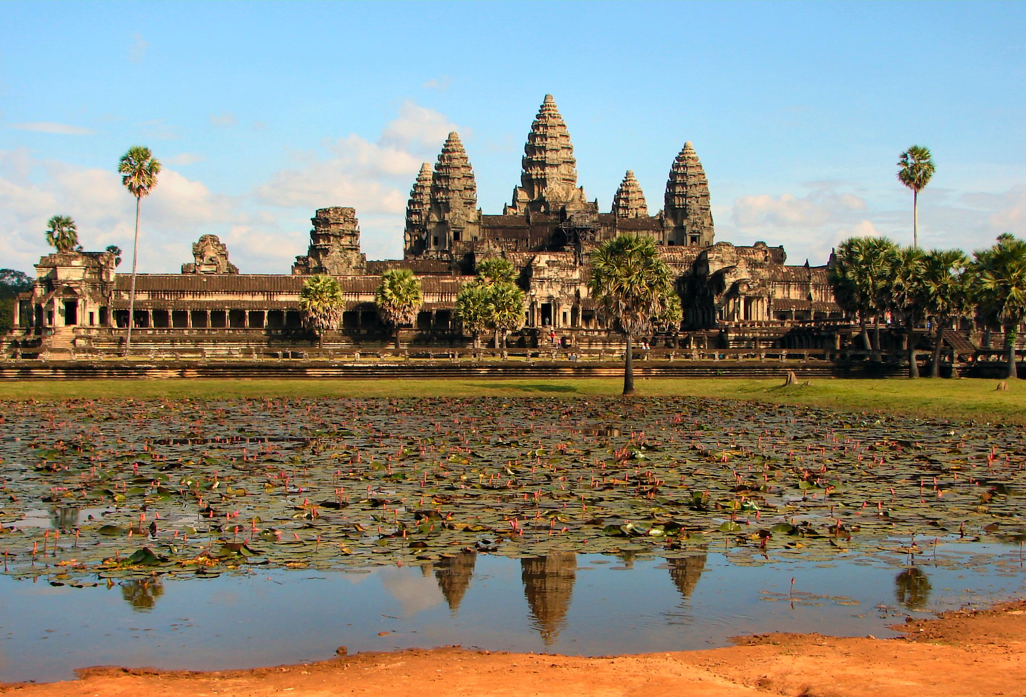 Angkor Wat, the front side of the main complex, photographed in the late afternoon